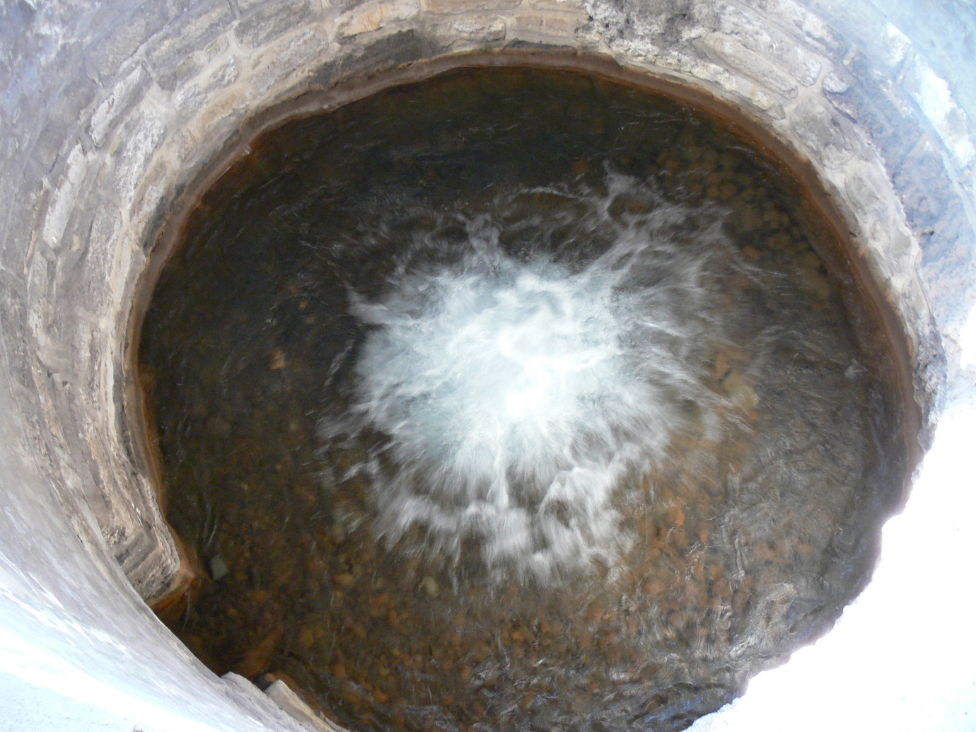 Nanlao Spring Well